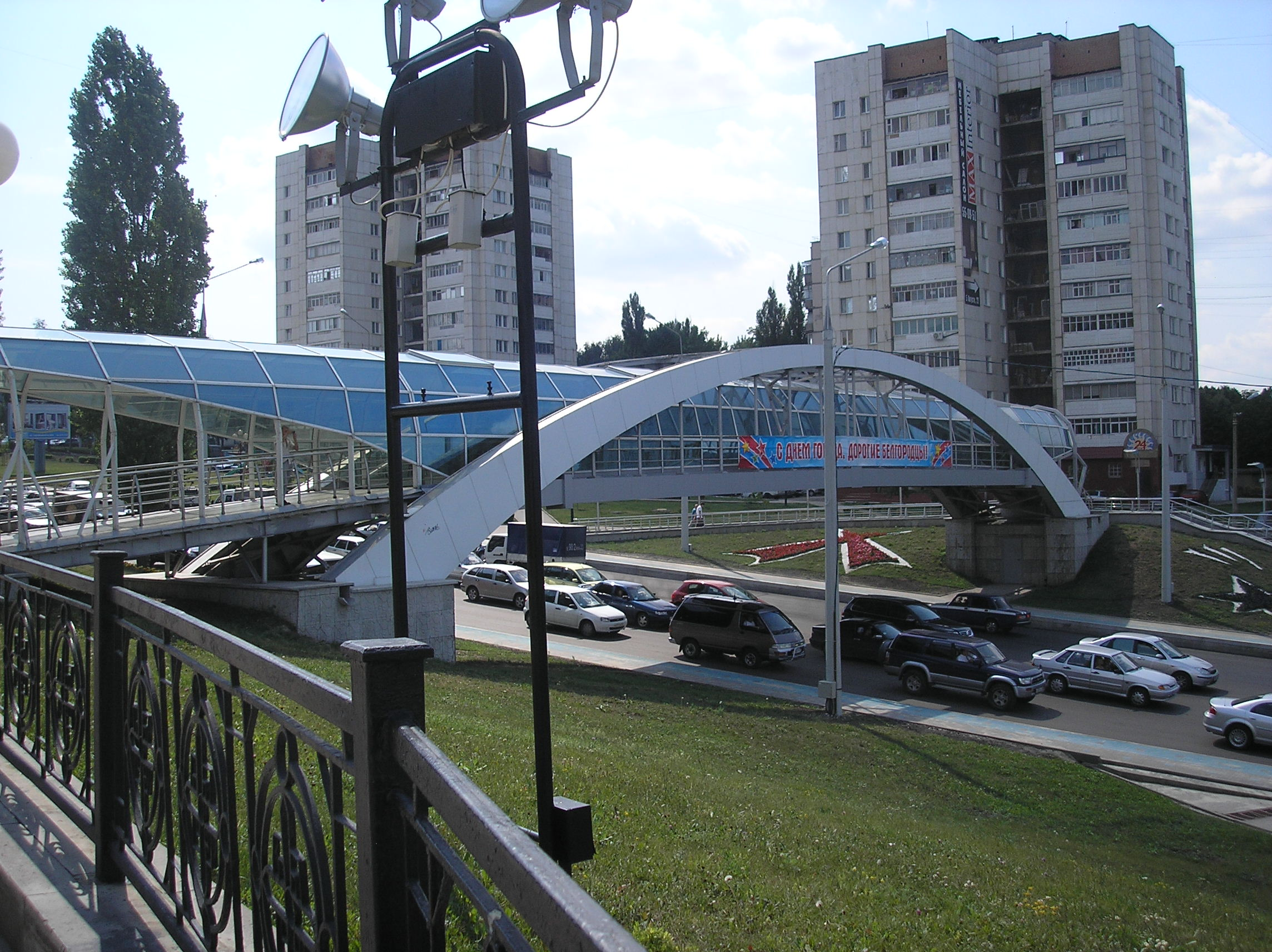 Пешеходный мост на проспекте Ватутина